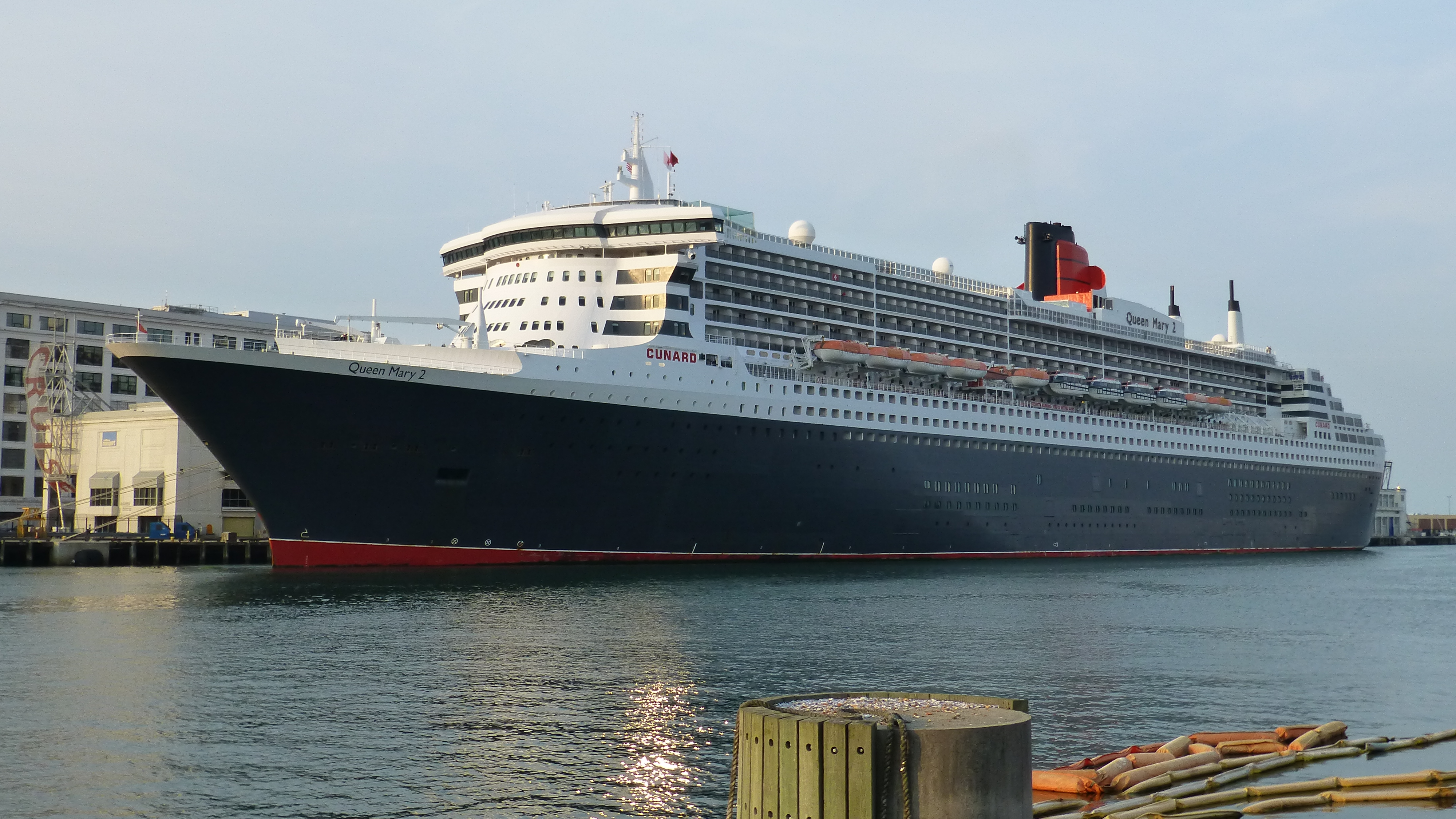 RMS Queen Mary 2 in Boston on 12 July 2015, as part of Cunard's 175th Anniversary tour. The visit commemorated Cunard's first trans-atlantic sailing in July 1840, which was from Liverpool to Boston via Nova Scotia.